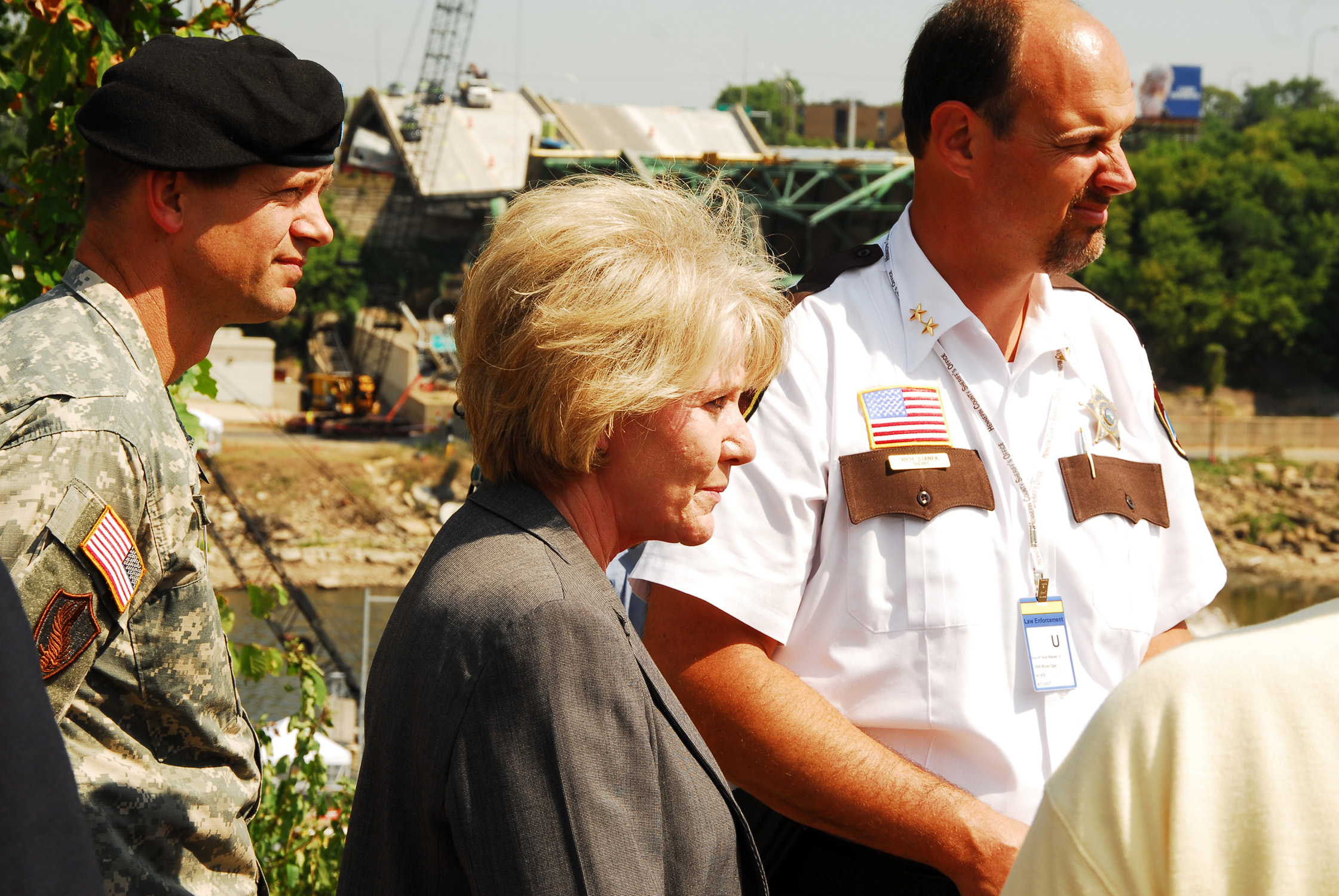 "Secretary of Transportation Mary E. Peters tours the site of the I-35 bridge collapse over the Mississippi River in Minneapolis, Minn., with Col. Michael Chesney, defense coordinating officer, left, and Richard Stanek, Hennepin County Sheriff, Aug. 10, 2007. Peters was briefed on the current situation and the progress of the multi-agency search and recovery effort."